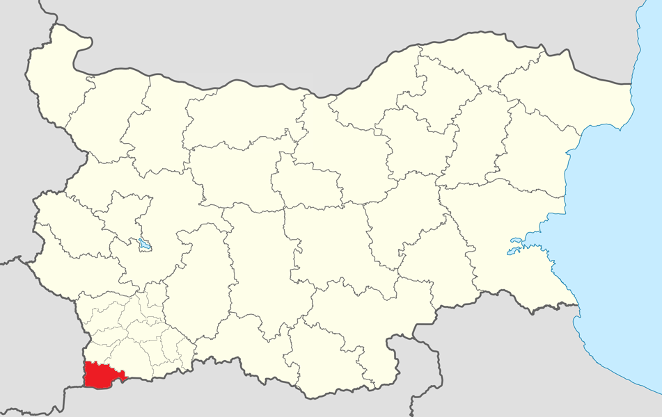 Location map of Petrich Municipality within Bulgaria and Blagoevgrad province